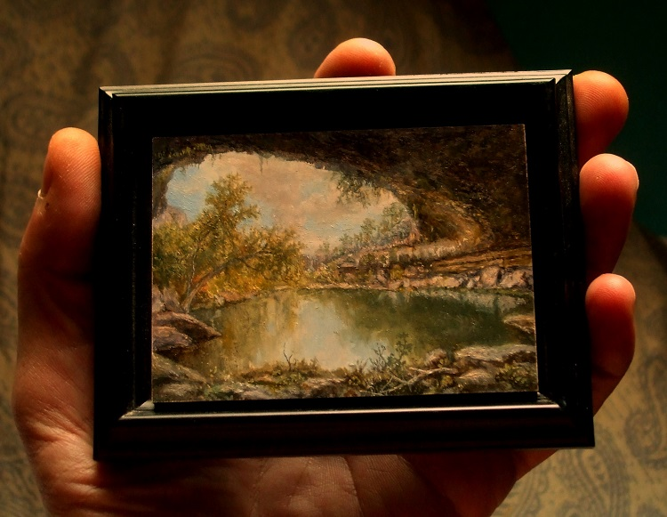 "Hamilton Pool." Miniature landscape painting, oil on 2.5" x 3.5" panel.